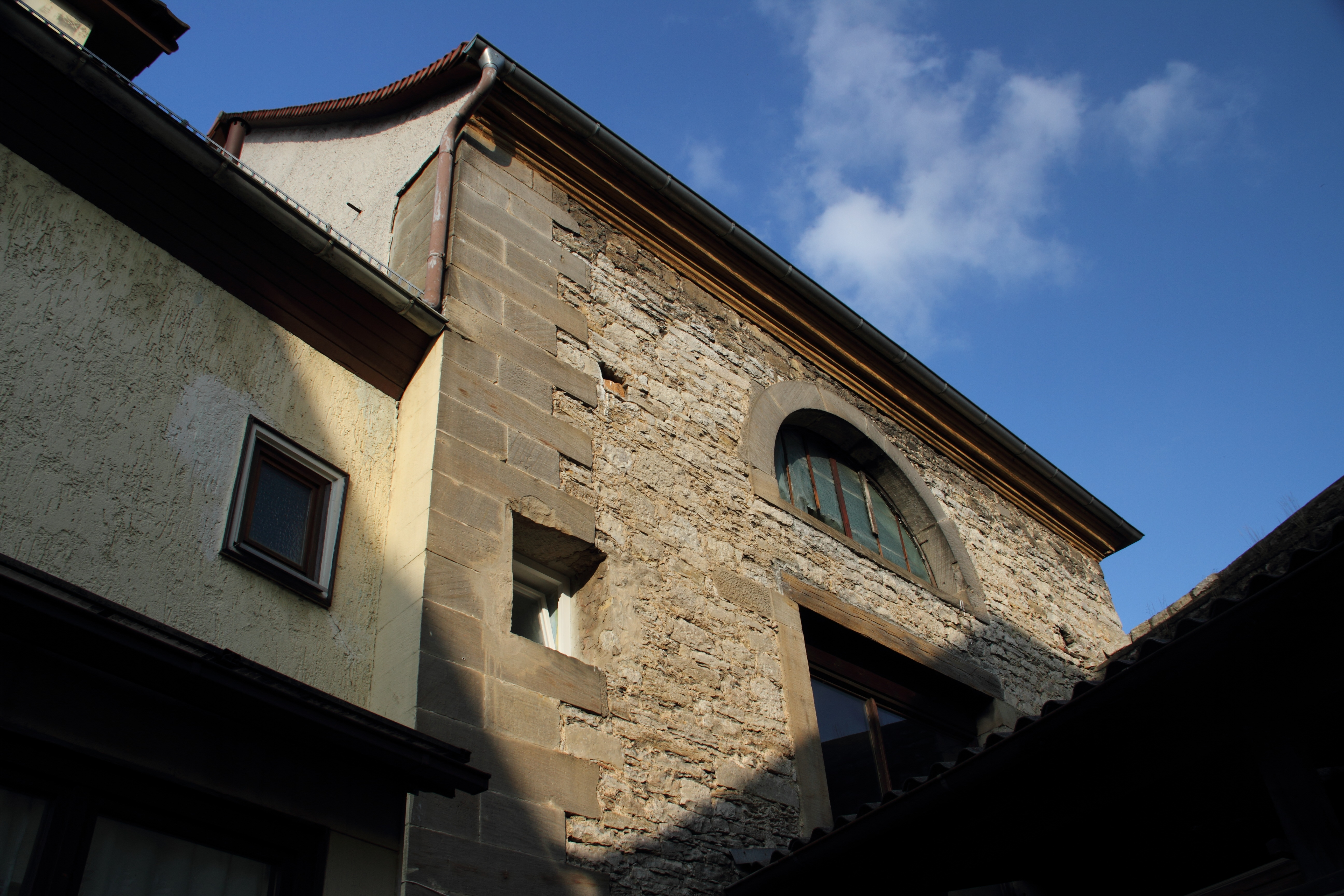 The house at Wilhelmstraße 16 was a synagogue until 1928. Since the end of the 1950s it is used as a cabinetmaker´s workshop.